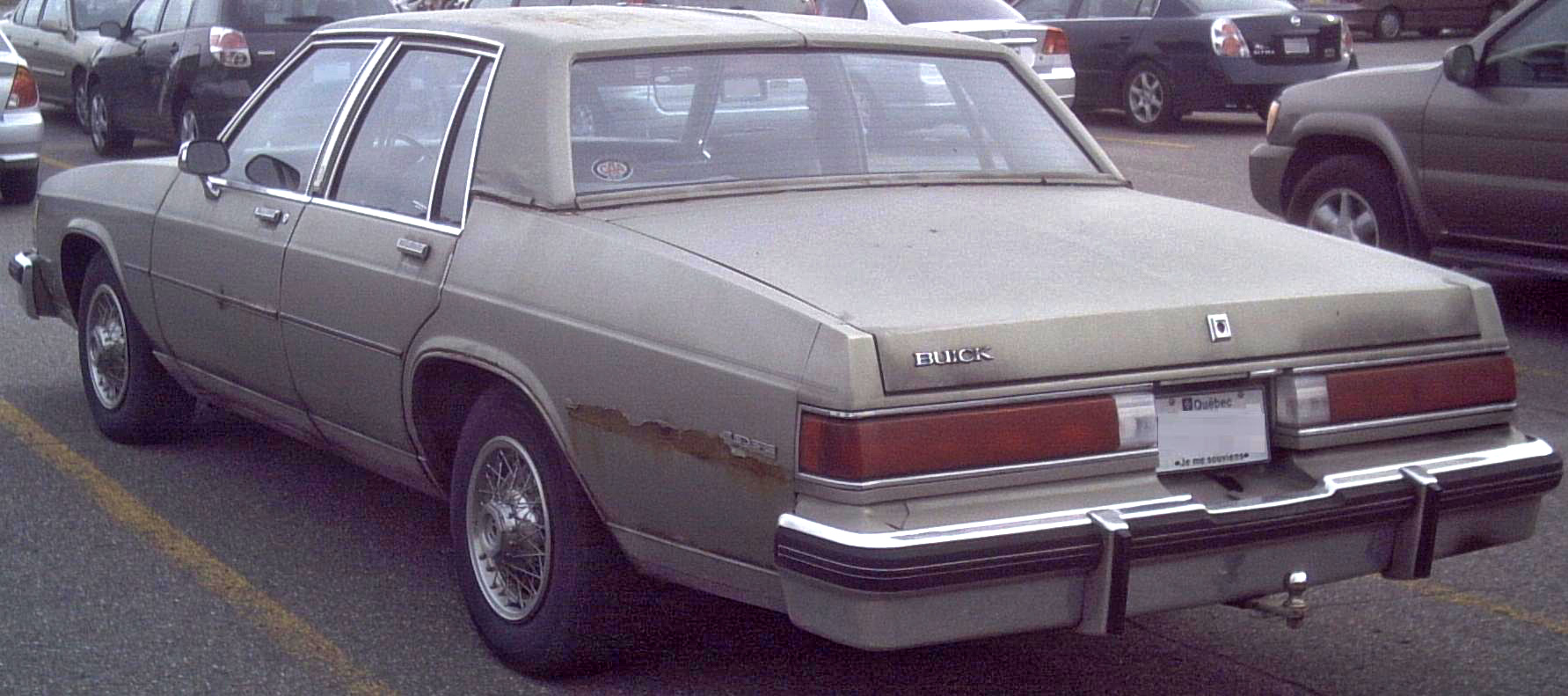 Pre-1985 Buick LeSabre photographed in Montreal, Quebec, Canada.